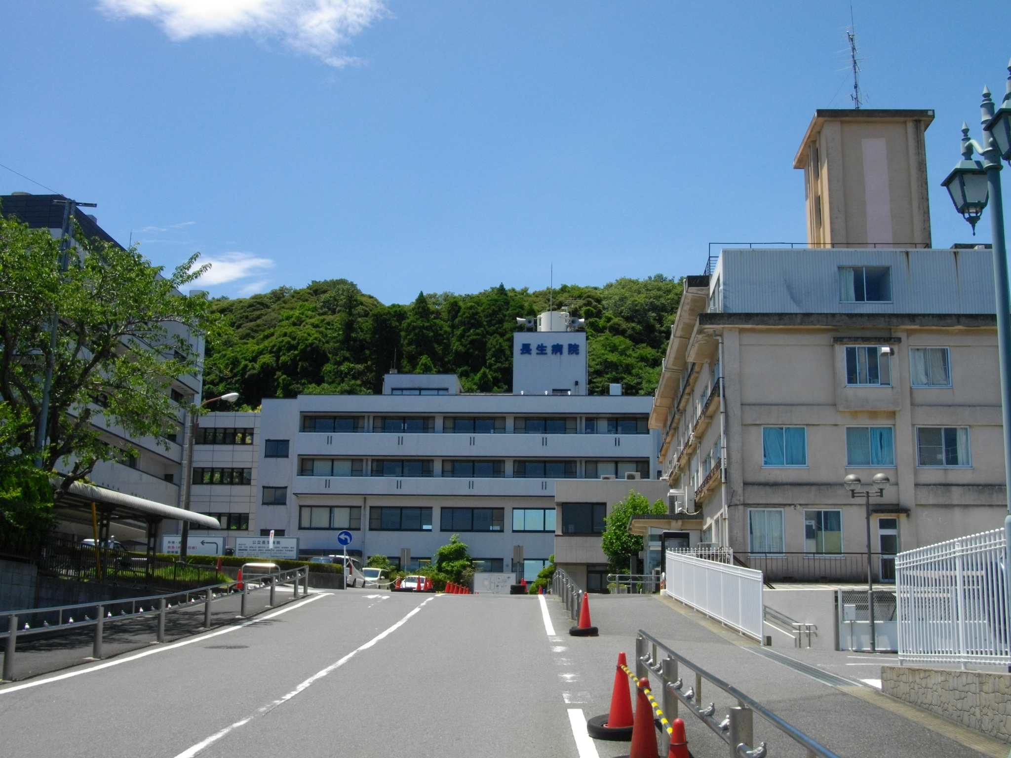 Chosei Municipal Hospital